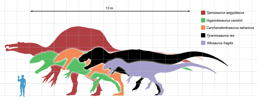 Size comparison of selected carnivorous dinosaurs, based on illustrations by Scott Hartman (Tyrannosaurus, Allosaurus), Ville Sinkkonen (Carcharodontosaurus), Gregory Paul (Giganotosaurus), and ArthurWeasley and Steveoc 86 (Spinosaurus)